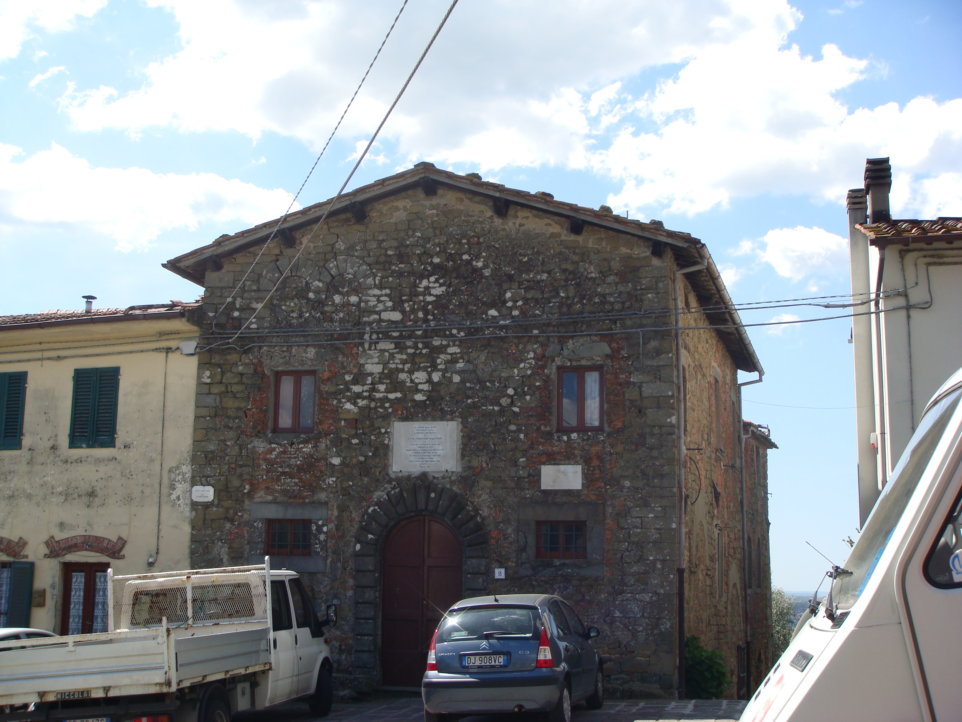 View of Coluccio Salutati birthplace in Stignano, Buggiano